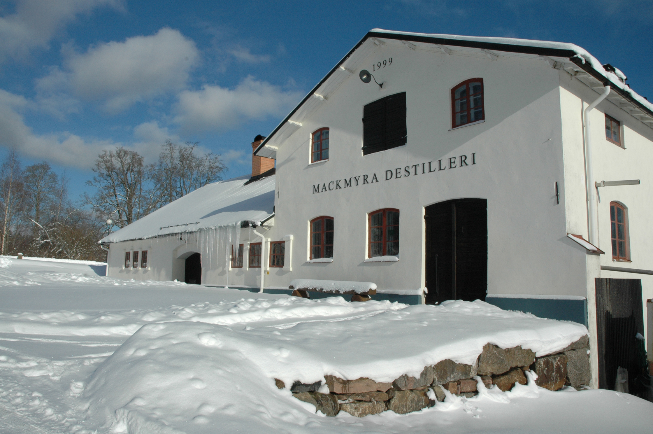 Mackmyra Whisky Distillery at winter -- Mackmyra Bruk, Valbo, Sweden